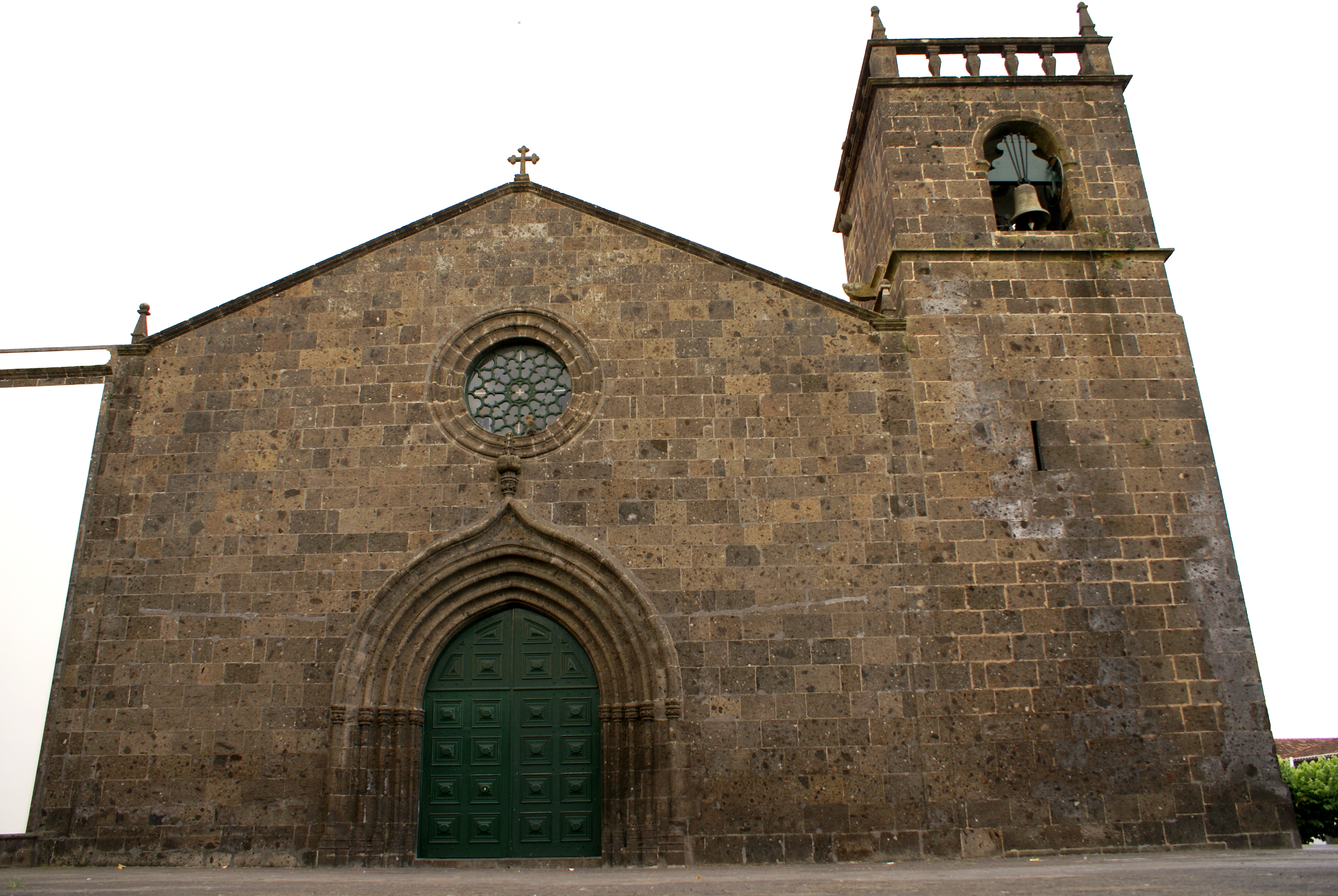 Front façade of the Church of São Miguel Arcanjo, Vila Franca do Campo, São Miguel (Azores), Portugal